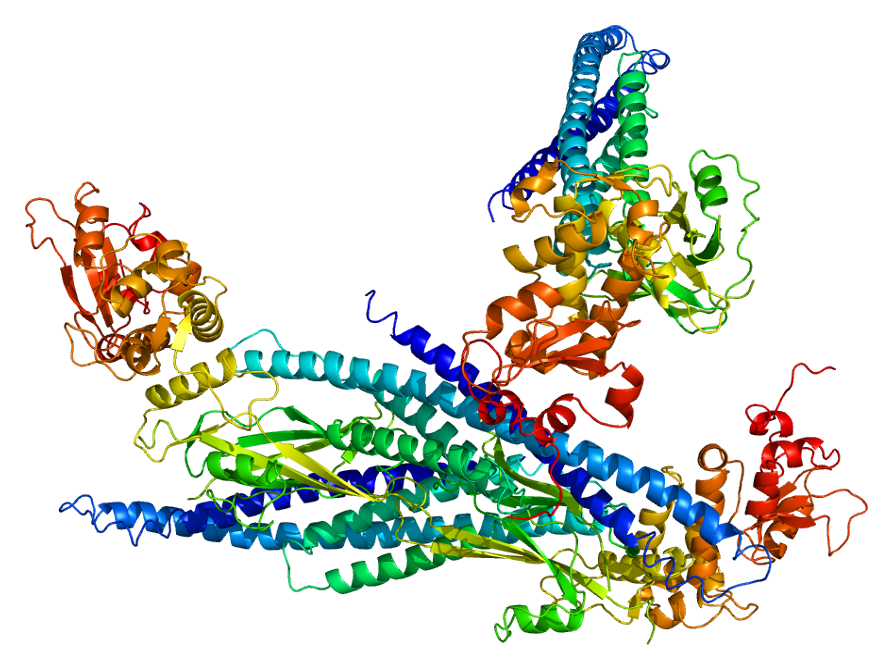 Structure of the STAT5A protein. Based on PyMOL rendering of PDB 1y1u.